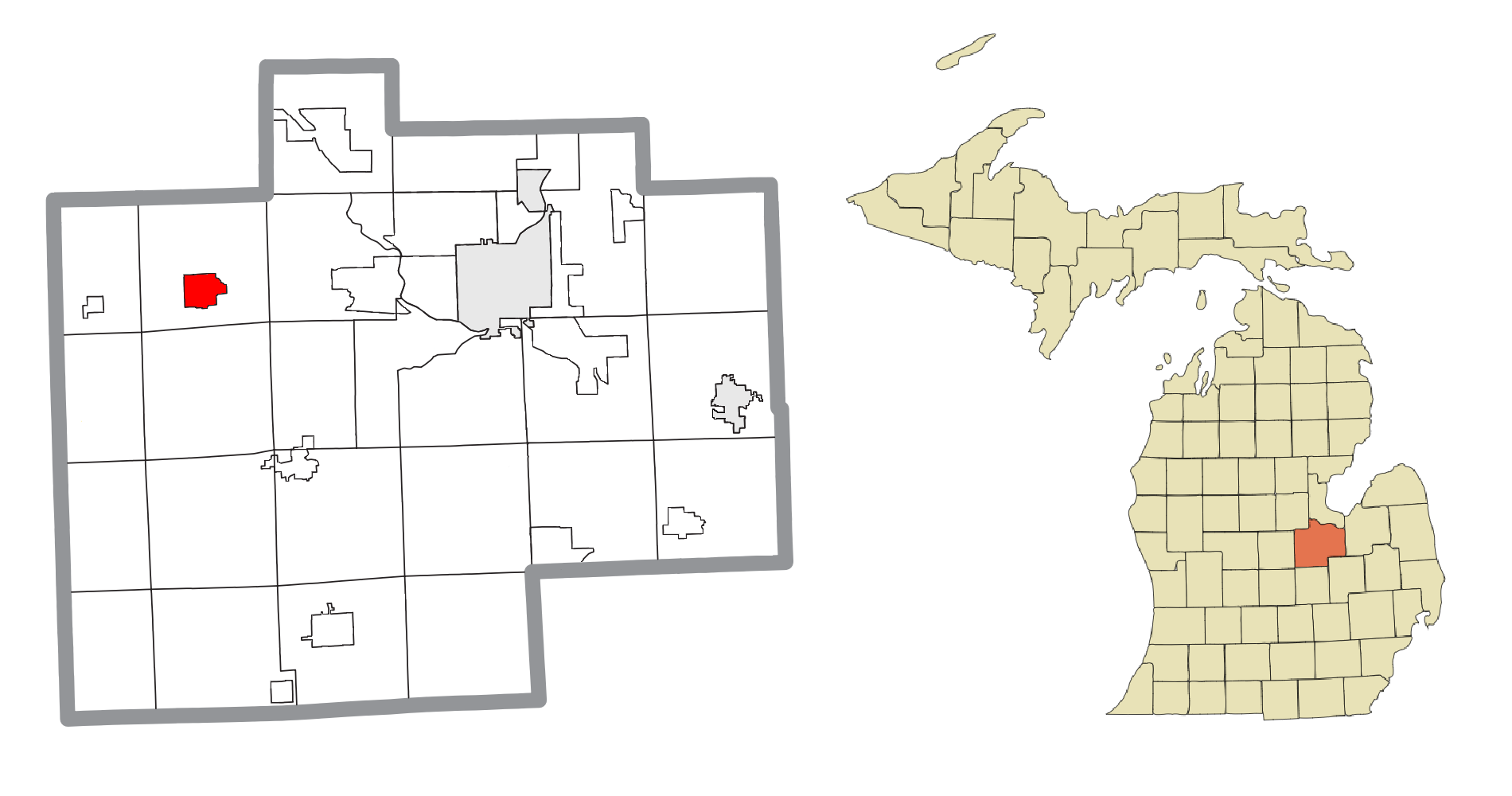 Hemlock, MI